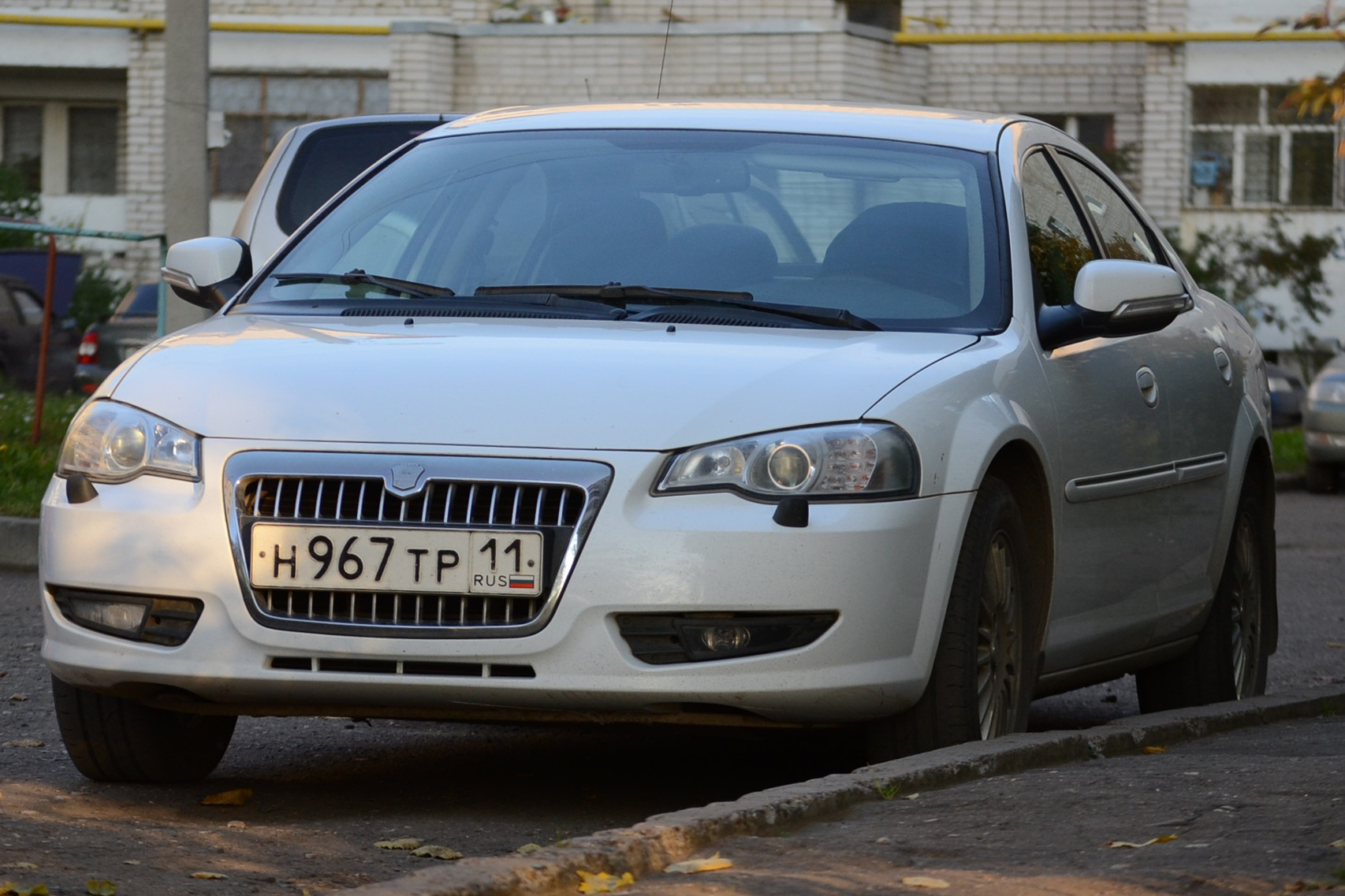 Volga Siber